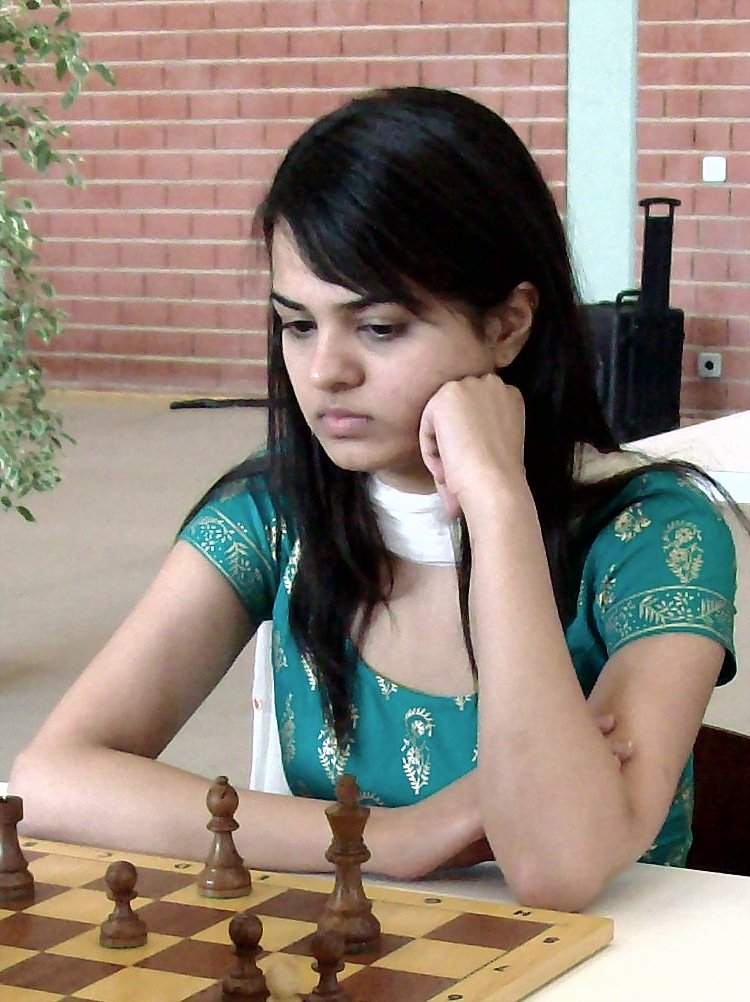 Tania Sachdev, chess player from India